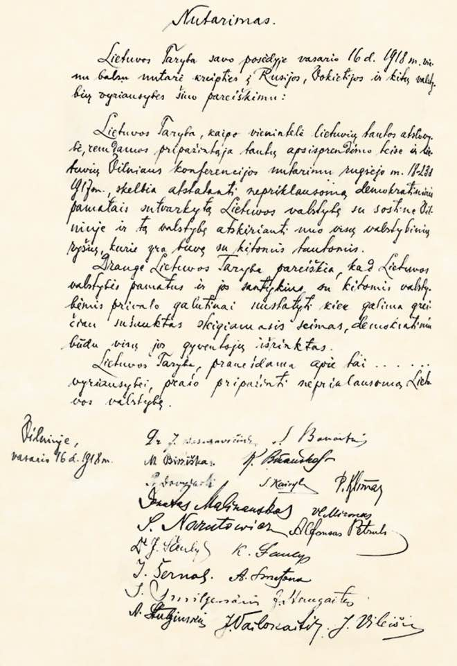 Scan of original Act of Independence of Lithuania hand-written in Lithuanian language and with twenty original signatures, which was found on 29 March 2017 by Vytautas Magnus University professor Liudas Mažylis at the Federal Foreign Office Political Archive in Berlin, Germany.